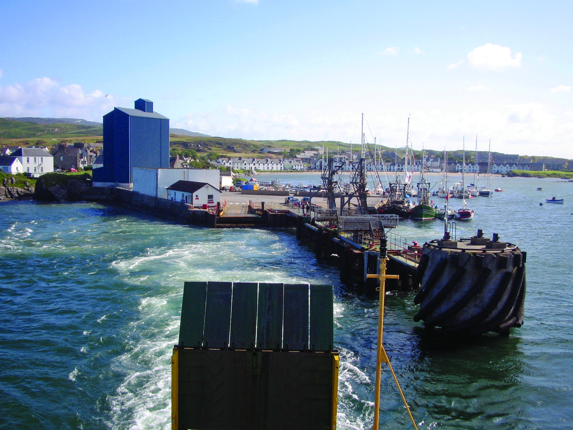 Ferry pull away from the pier at Port Ellen